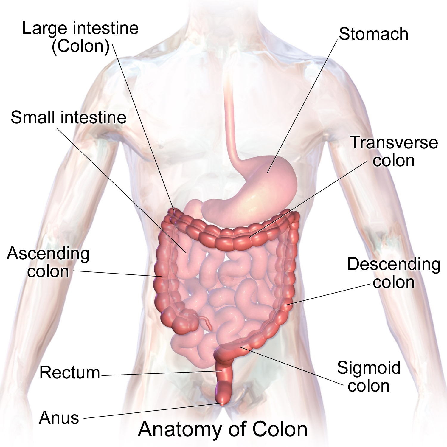 The Colon. See a full animation of this medical topic.